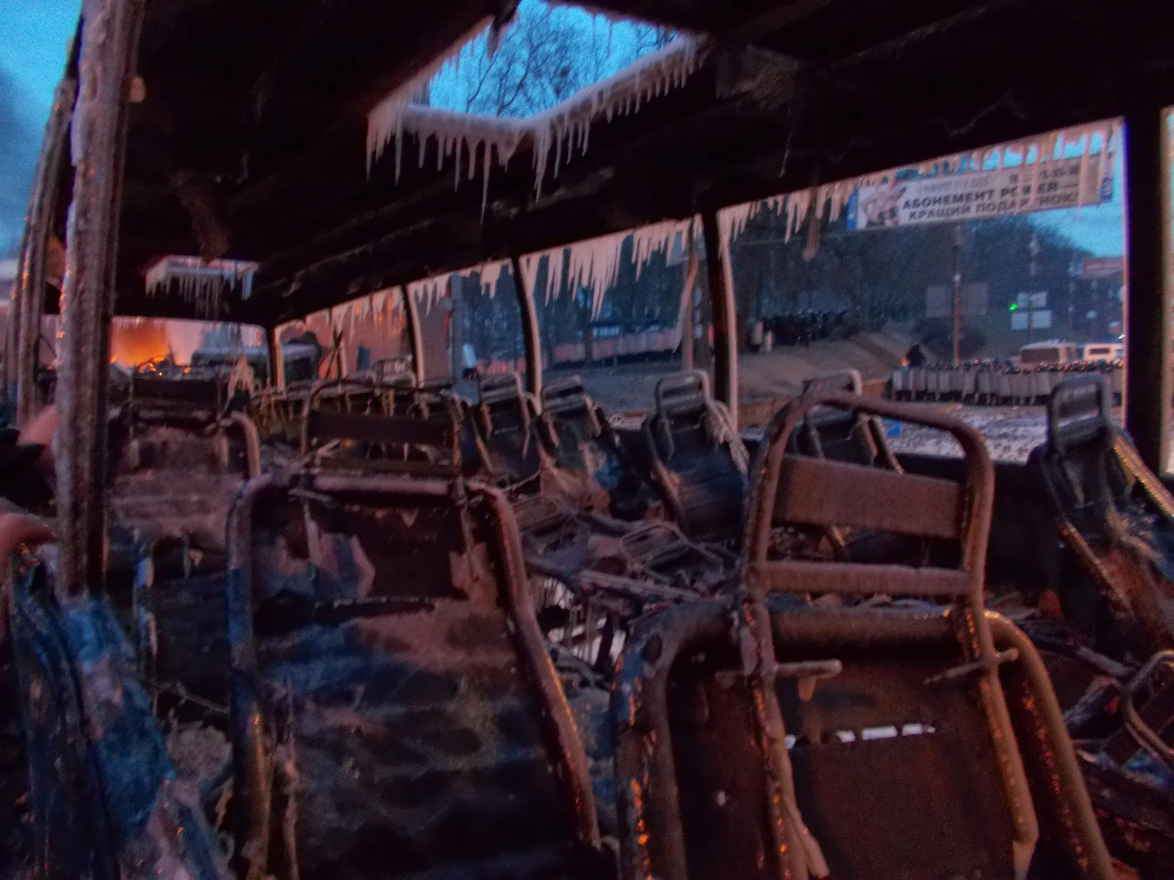 Protests on Hrushevskyi street, Kiev, 20 January 2014